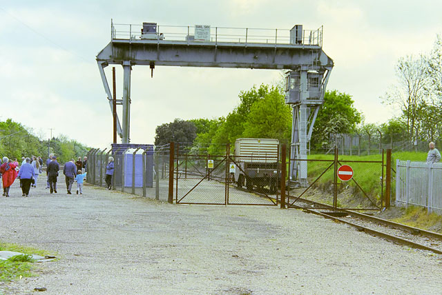 Southminster nuclear flask transhipment facility, 2002 A 56 t crane for moving Bradwell power station flasks off and on the special railway wagon. The large number of people at left are awaiting the departure of a special steam hauled train - the first steam seen here for many years.